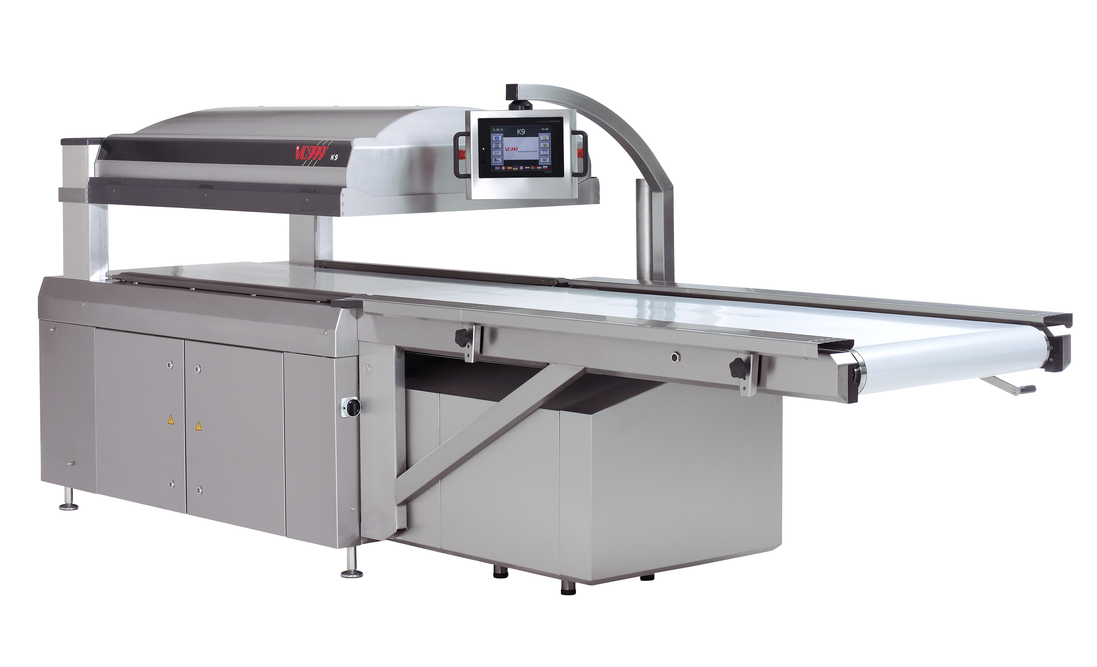 Automatic belt chamber machines are the largest vacuum chamber packager made. This thing is a Giant!